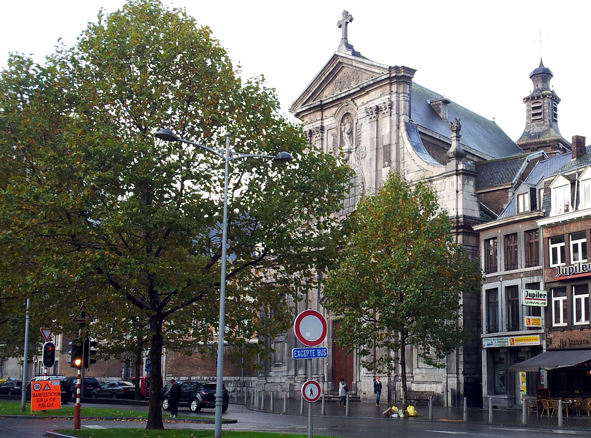 View of the Abbey Church of Paix-Notre-Dame on Boulevard d'Avroy in Liège, Belgium.